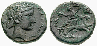 SICILY, Katane . After 212 BC. Æ 20mm (8.11 gm). ΚΑΤΑΝΑΙ-[ΩΝ], wreathed head of Dionysos right Dionysos, holding grape cluster in right hand and sceptre in left, seated left in biga being pulled to the right by two panthers; three monograms around.